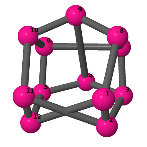 One of 85 simple cubic graphs with 12 vertices.